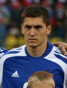 Thomas Beck in Liechtenstein national football team